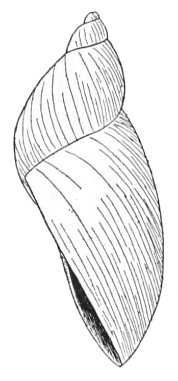 Drawing of the lateral view of the shell of Novisuccinea chittenangoensis.